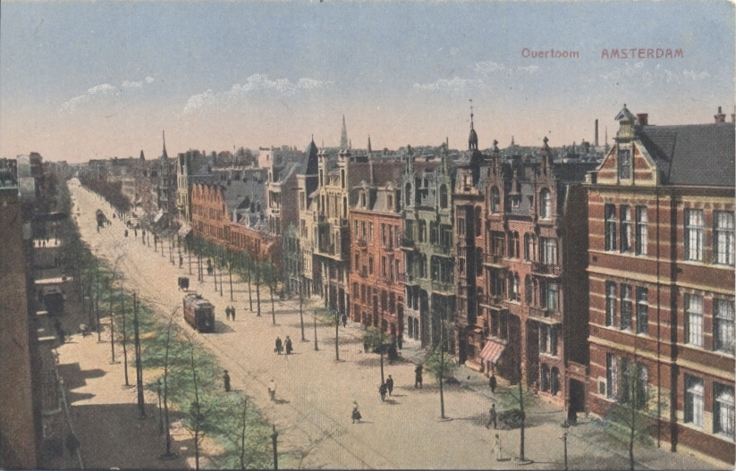 Scan of a phostcard dated before 1920s of Amsterdam.